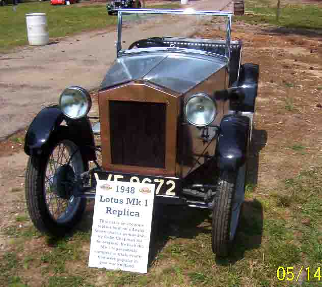 Lotus Mark 1. I took this picture at a local car show.Tom Bartlett 17:42, 16 January 2007 (UTC)